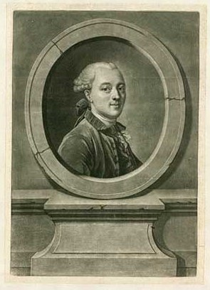 Andreas Schumacher (1726-1790), Danish diplomat and civil servant